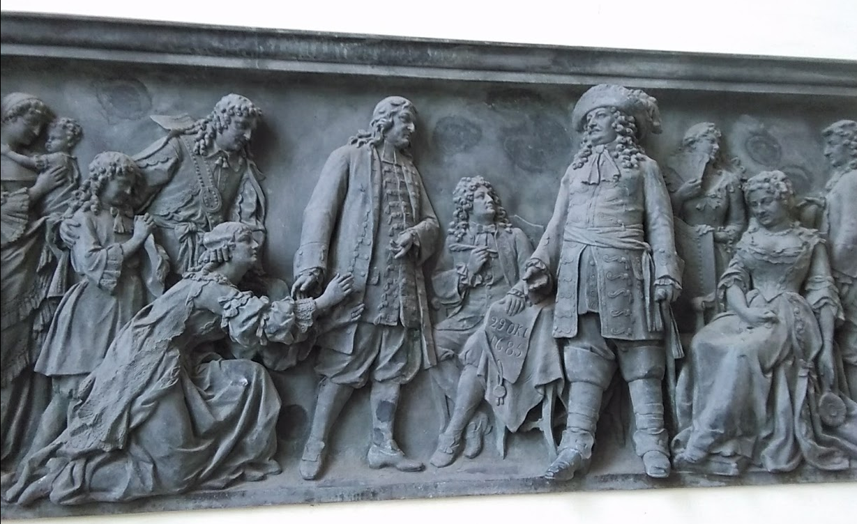 French Hugenots fleeing to Brandenburg, Edict of Fontainebleau, Berlin